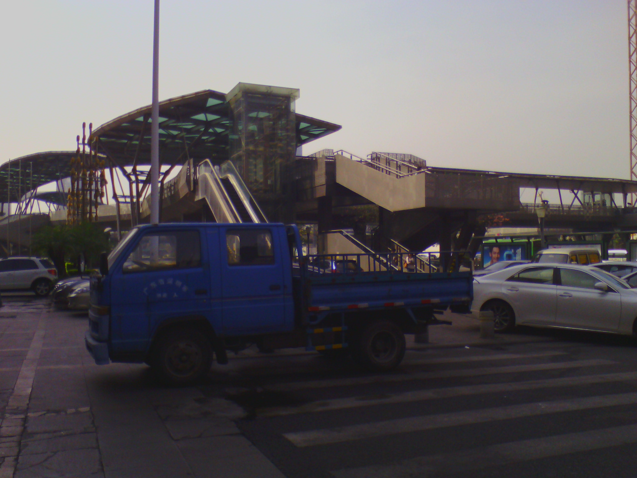 A photography of a passenger foot-bridge in Shenzhen.